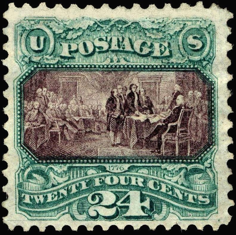 Image of Declaration of Independence commemorative issue of 1869